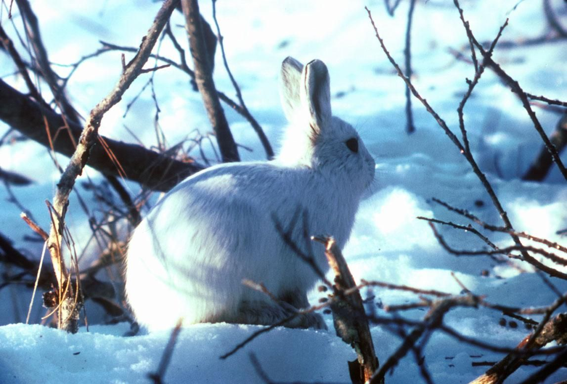 Image title: Arctic hare in snow and bushes lepus arcticus Image from Public domain images website